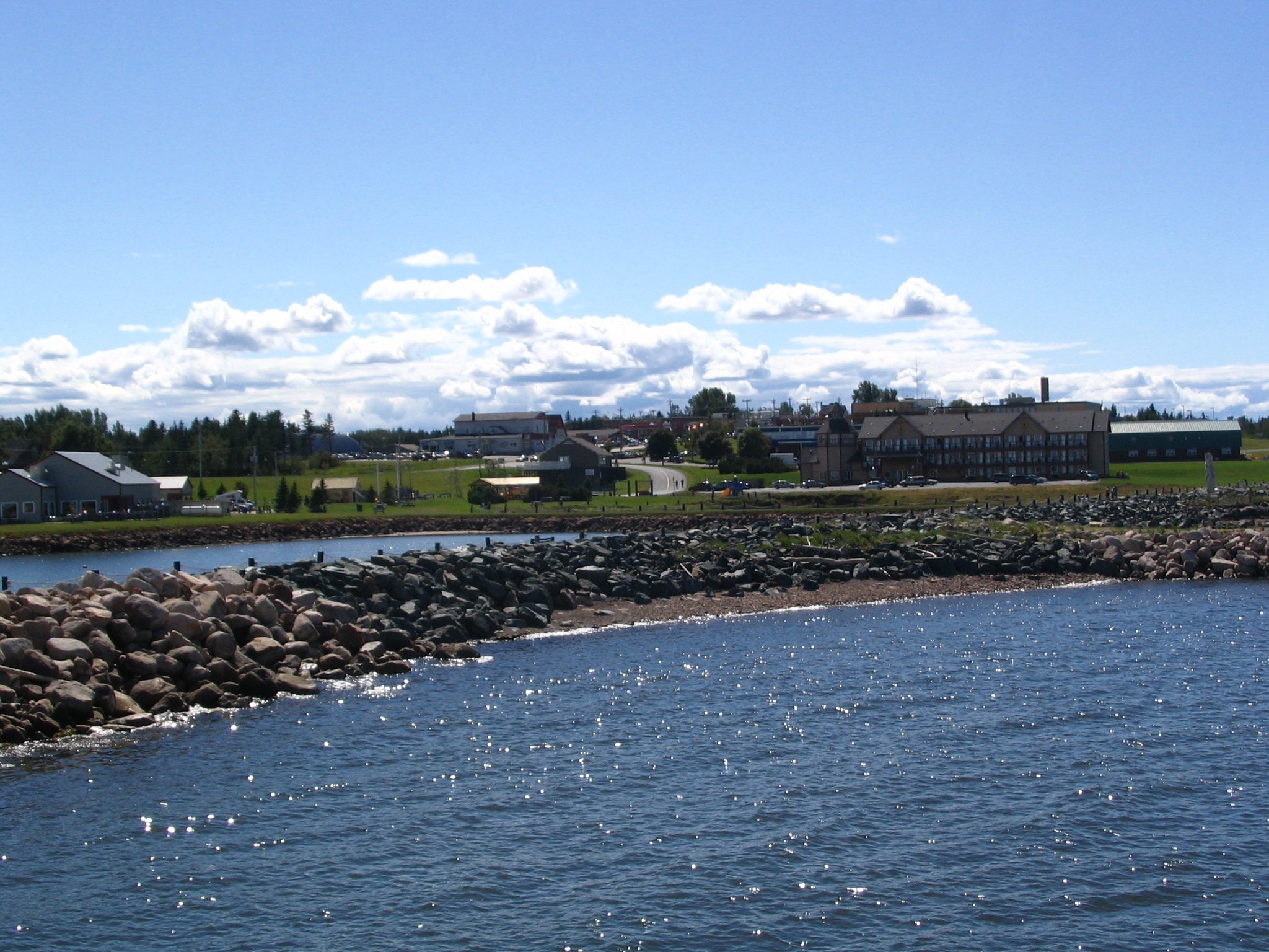 The city of Caraquet, New Brunswick, as seen from the port, looking westward.